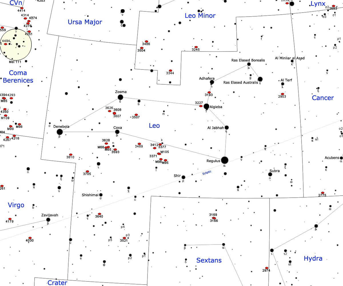 Map of Leo